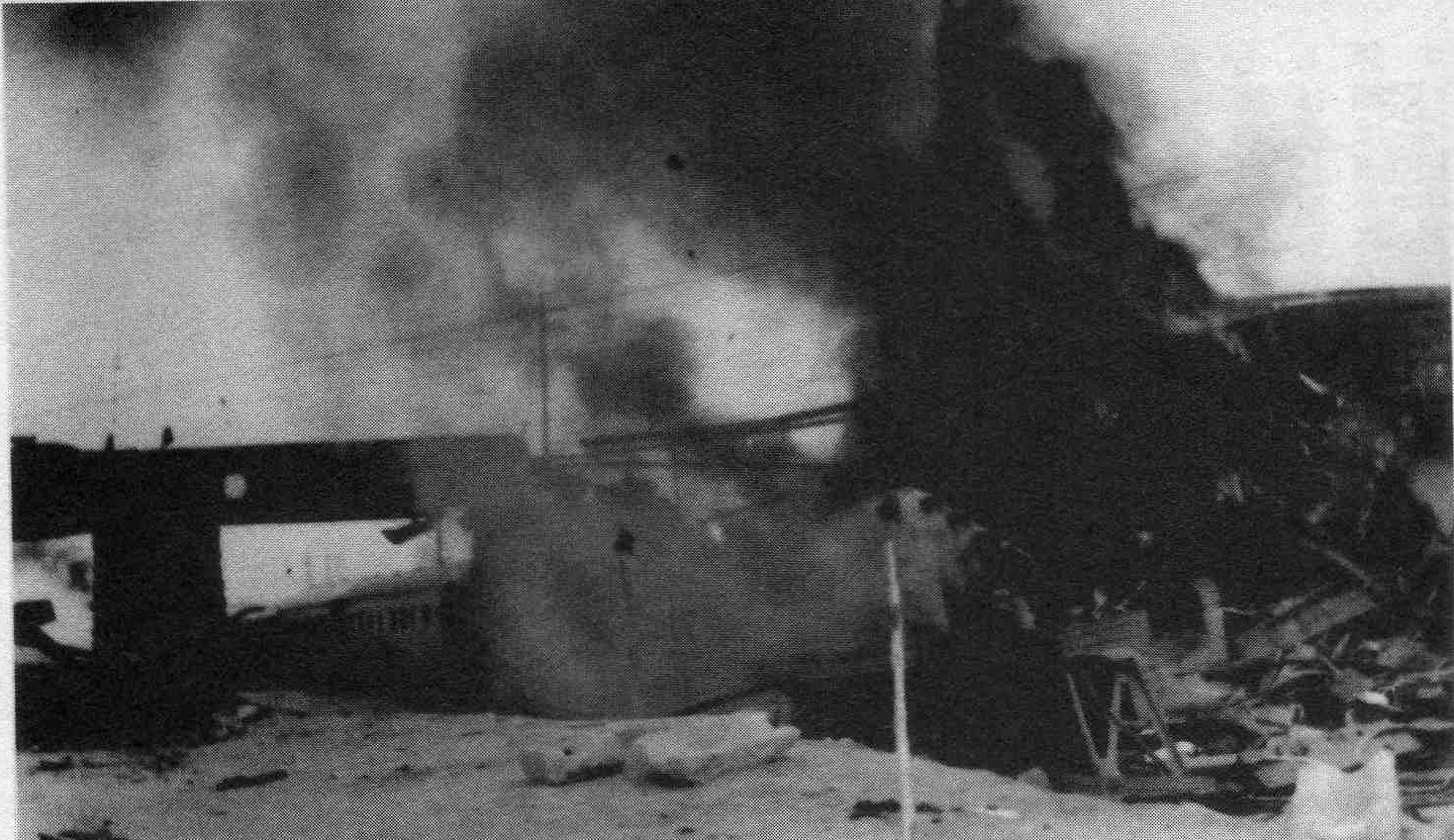 Zhang zuolin